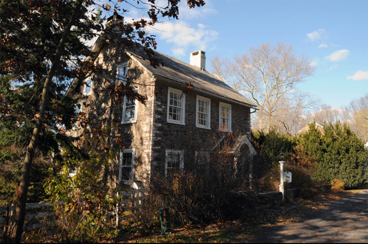 KNIGHT’S HOUSE (1807) – ALSO KNOWN AS SPRINGHOUSE FARM. PURCHASED BY ERIC AND JERE KNIGHT IN 1939. ERIC KNIGHT IS THE AUTHOR OF “LASSIE COME HOME” FIRST PUBLISHED IN THE SATURDAY EVENING POST AND THEN AS AN NOVEL IN 1930. THE FIRST LASSIE MOVIE PREMIERED IN 1943. KNIGHT’S BORDER COLLIE “TOOTS” WAS THE INSPIRATION FOR LASSIE AND IS BURIED ON A HILLSIDE ABOVE THE FARM.